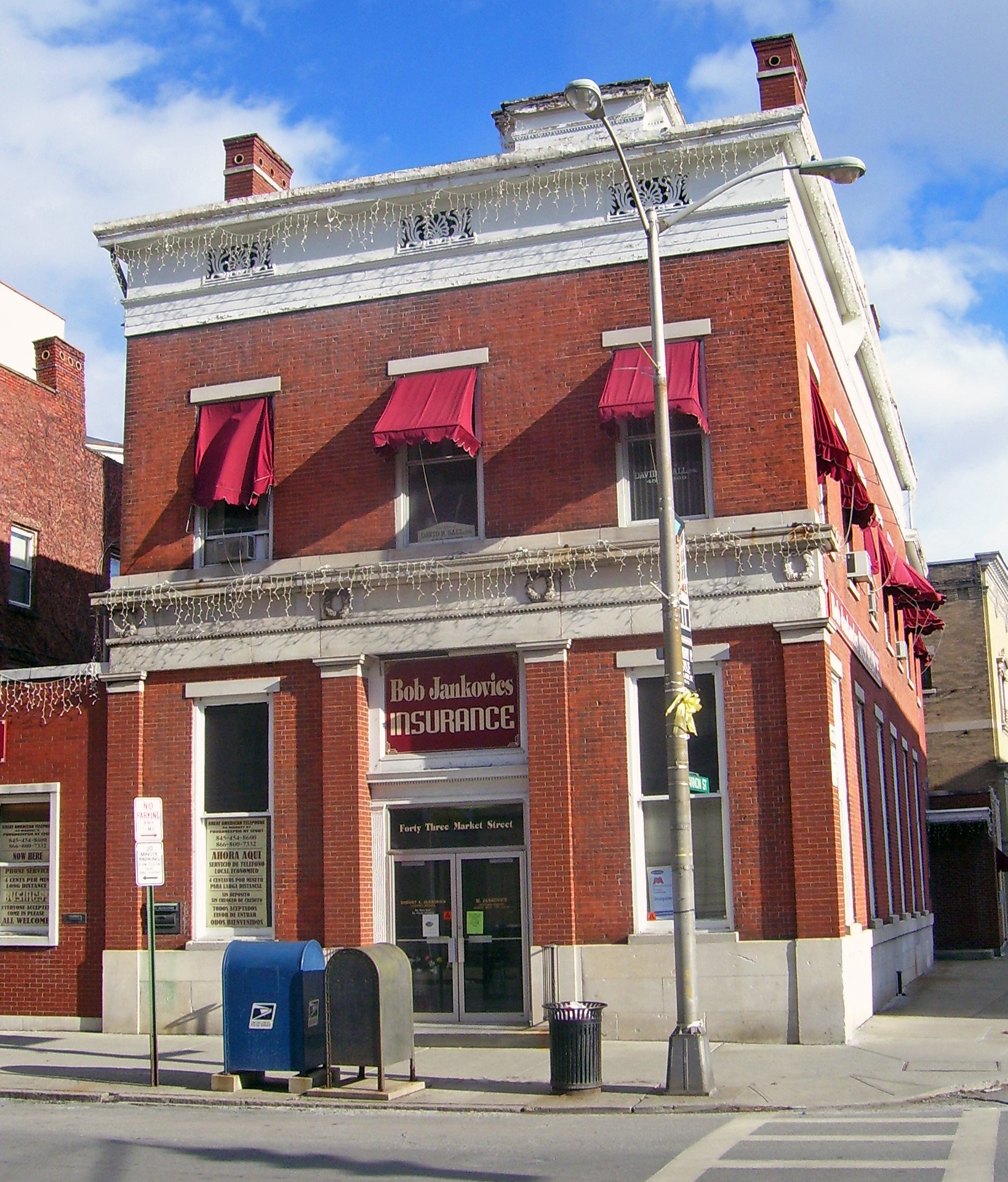 Farmers and Manufacturers Bank building in Poughkeepsie, NY, USA